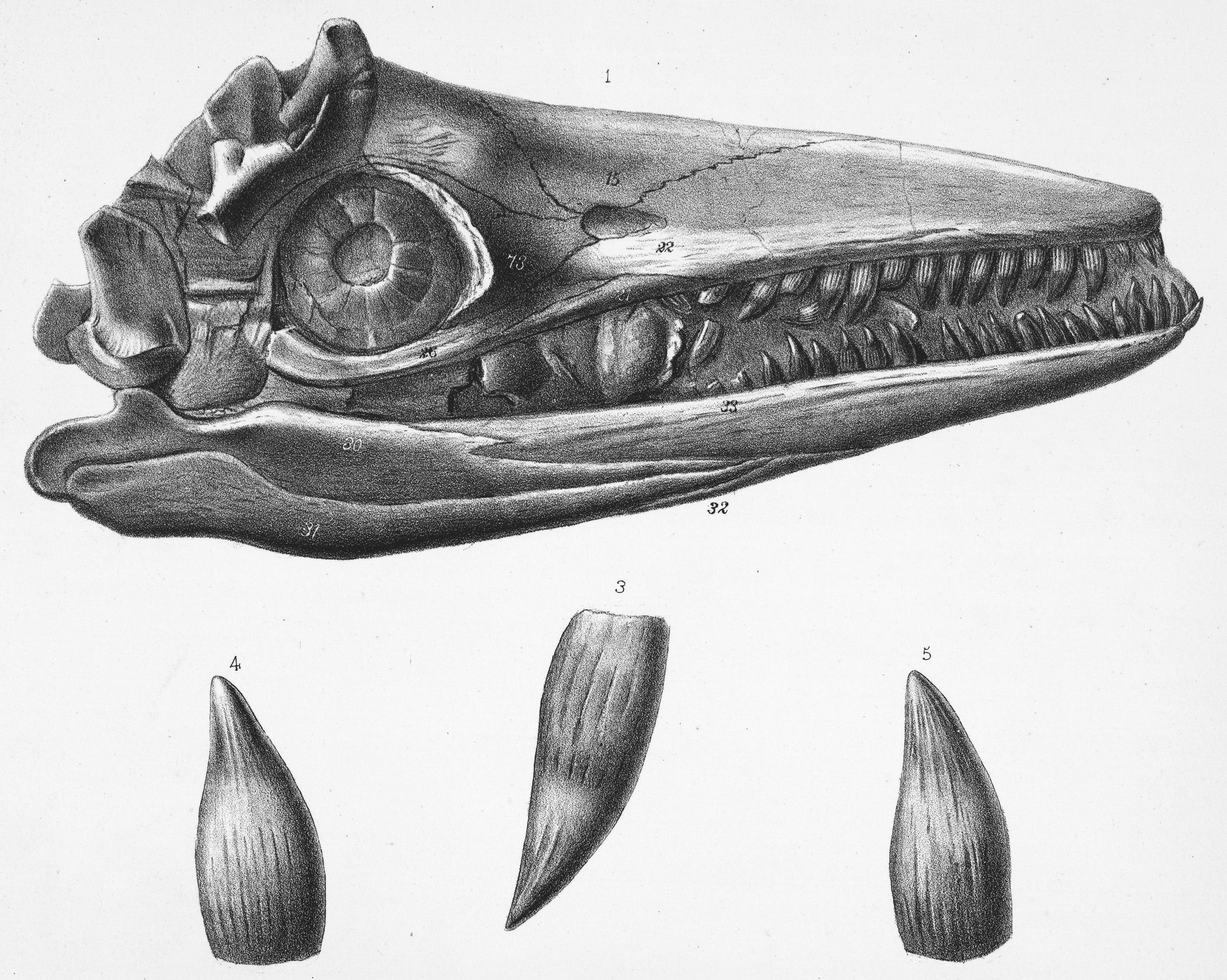 Temnodontosaurus eurycephalus (originally Ichthyosaurus breviceps, Ow). Fig. 1. Skull, side view, 1/4 nat. size. Fig. 3. Tooth from upper jaw of fig. 1, nat. size. Fig. 4. Ib. from lower jaw of fig. 1, nat. size. Fig. 5. Ib. from hinder part of the series, nat. size.